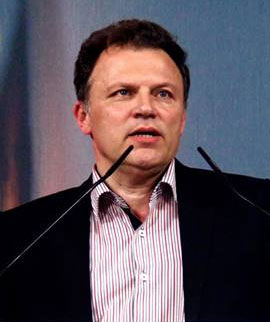 Lino Bianco at a political activity